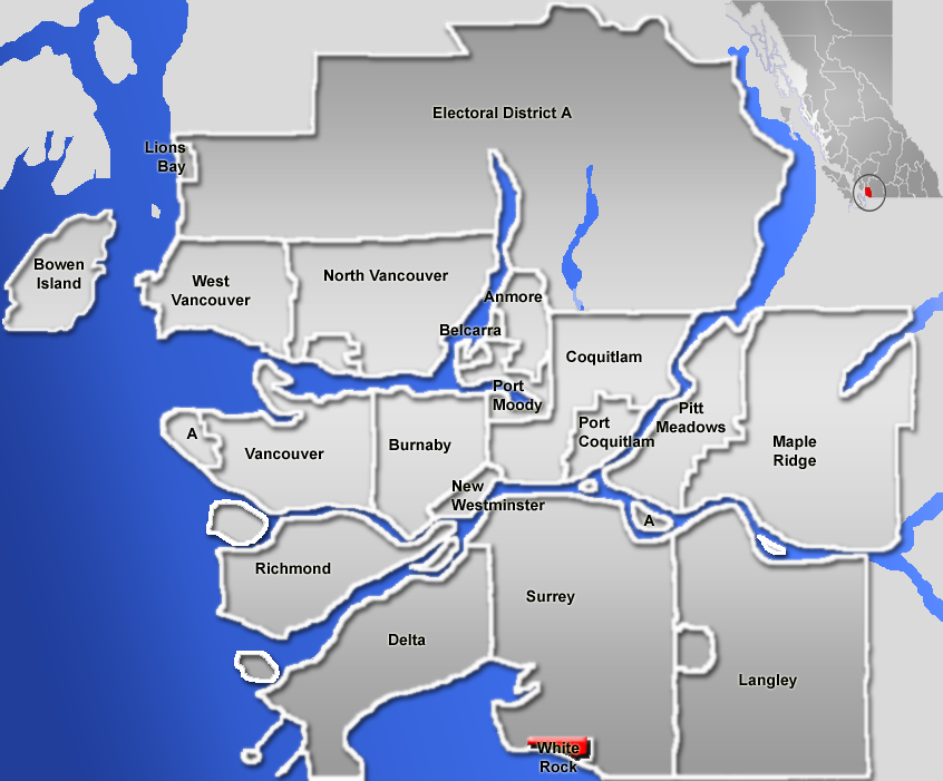 Location of White Rock, Greater Vancouver Area, British Columbia